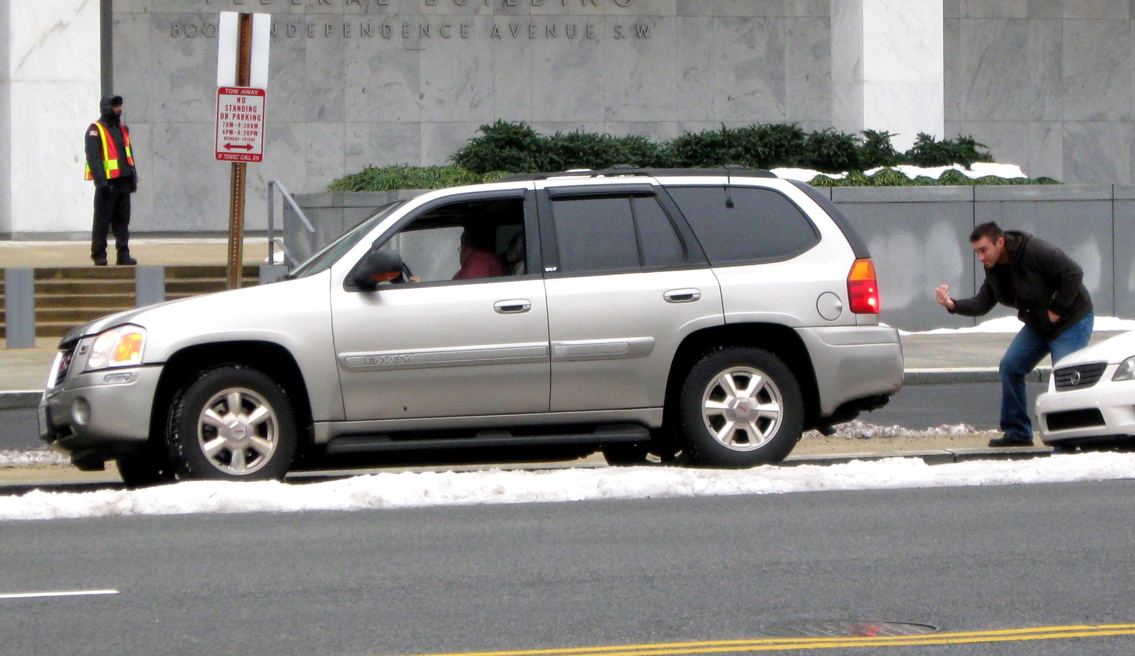 A motorist gets help parallel parking on Independence Avenue in Washington, D.C., USA.